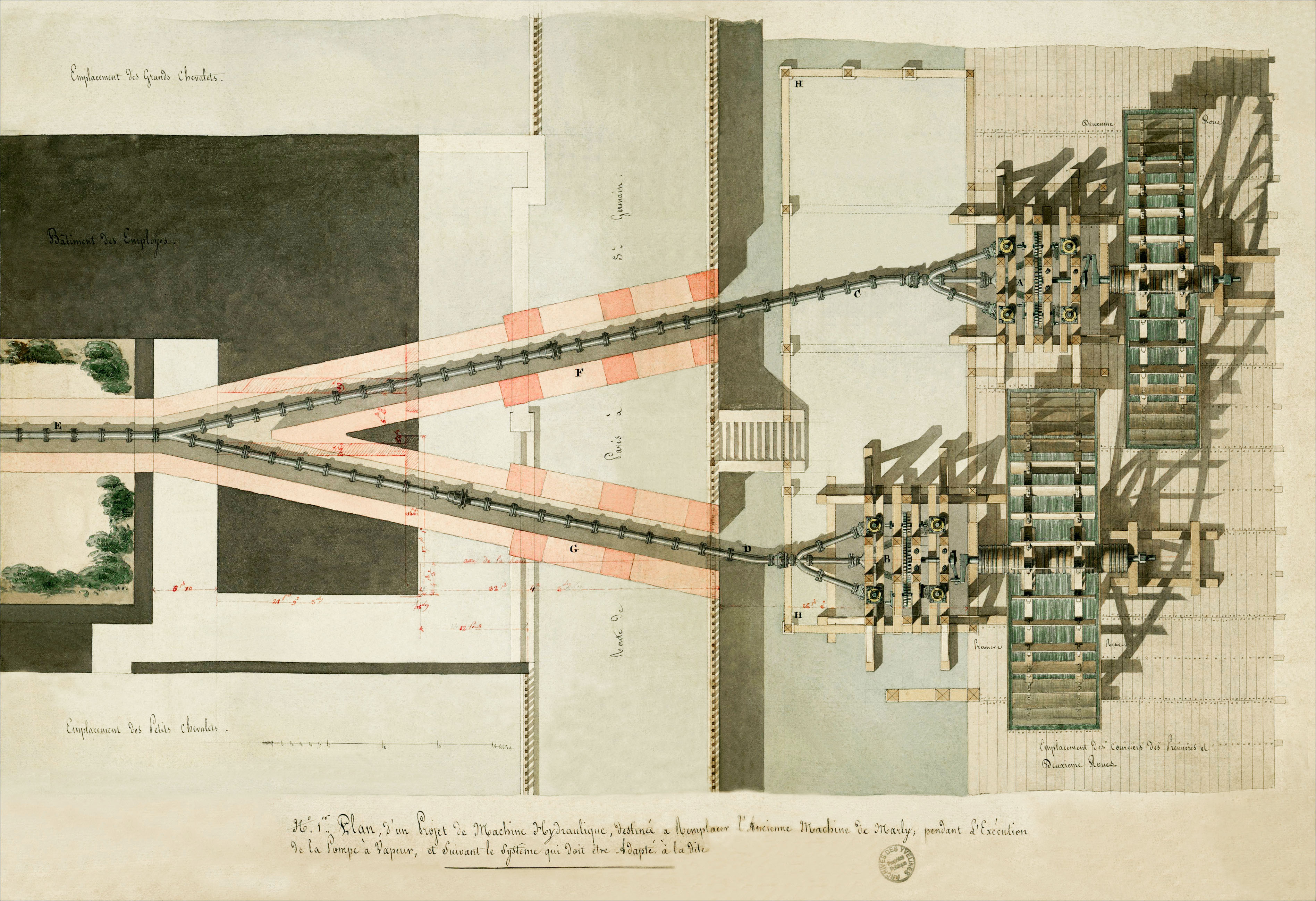 Marly Machines. Drawing of the temporary hydraulic machine.